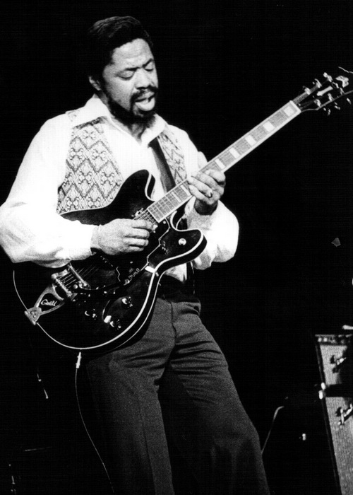 Blues guitarist Son Seals in Paris, France.